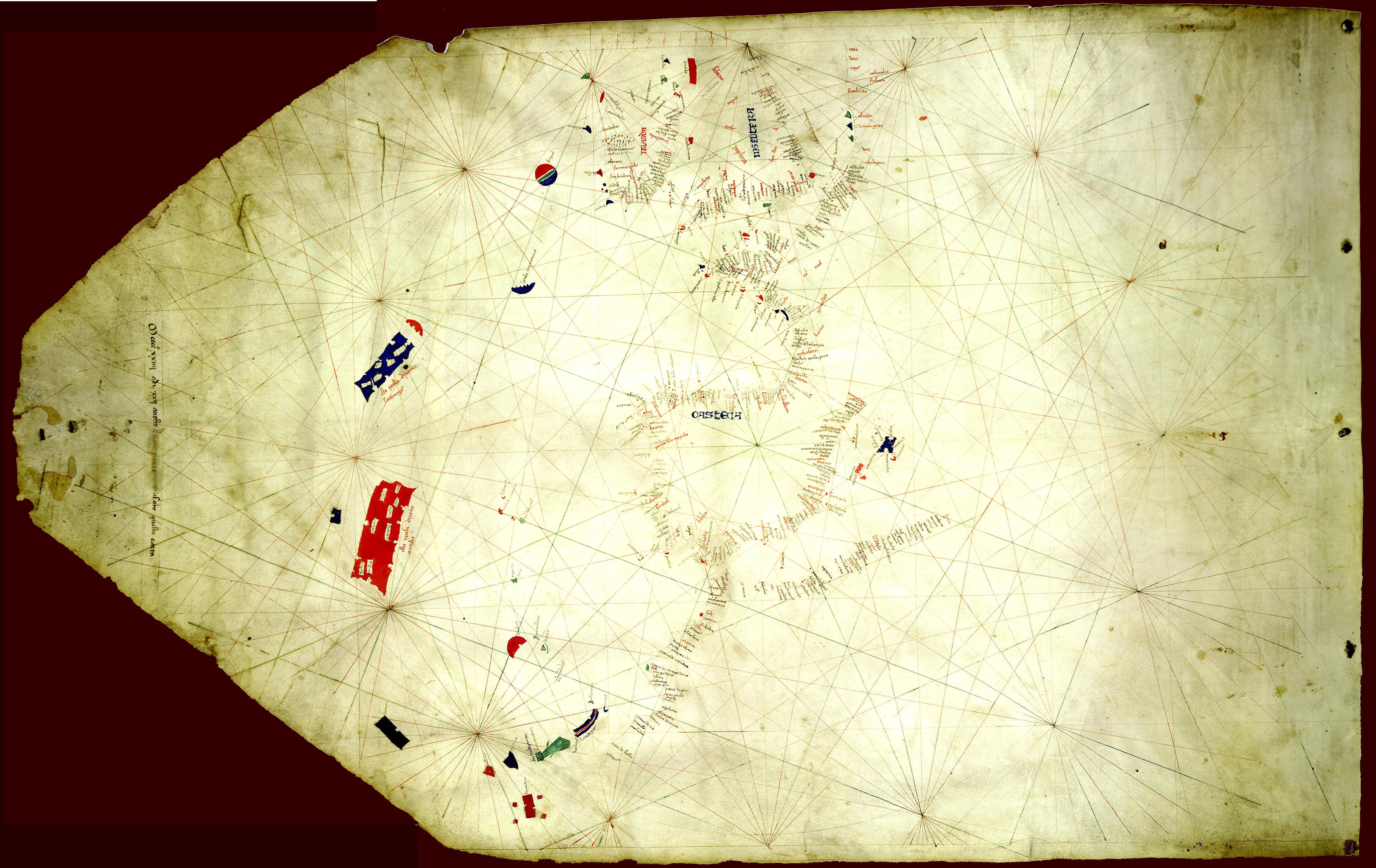 The Pizzigano map, also known as the Pizzigano chart is an Italian portolan chart dated 1424. It contains islands in the North Atlantic Ocean in the west of Spain and Portugal including Portuguese discoveries and legendary islands such as Antillia. The cartographer may have been the Venetian Zuane Pizigano, possibly a descendant of a 14th century family of mapmakes one of whom authored another well known map also called the Pizziagano map in Parma in 1367